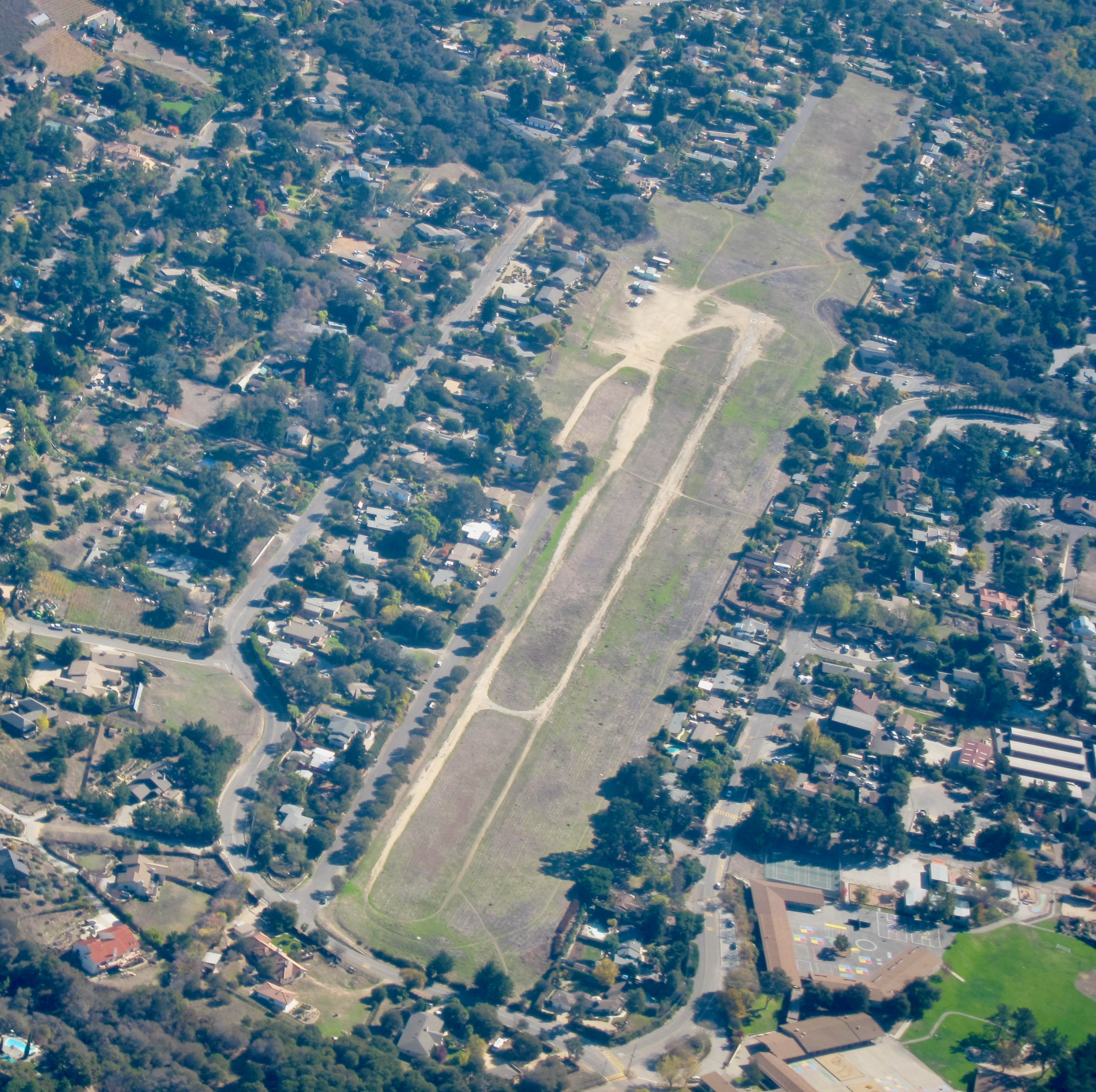 This is a photo of the Carmel Valley Airport in Carmel Valley, California, USA.